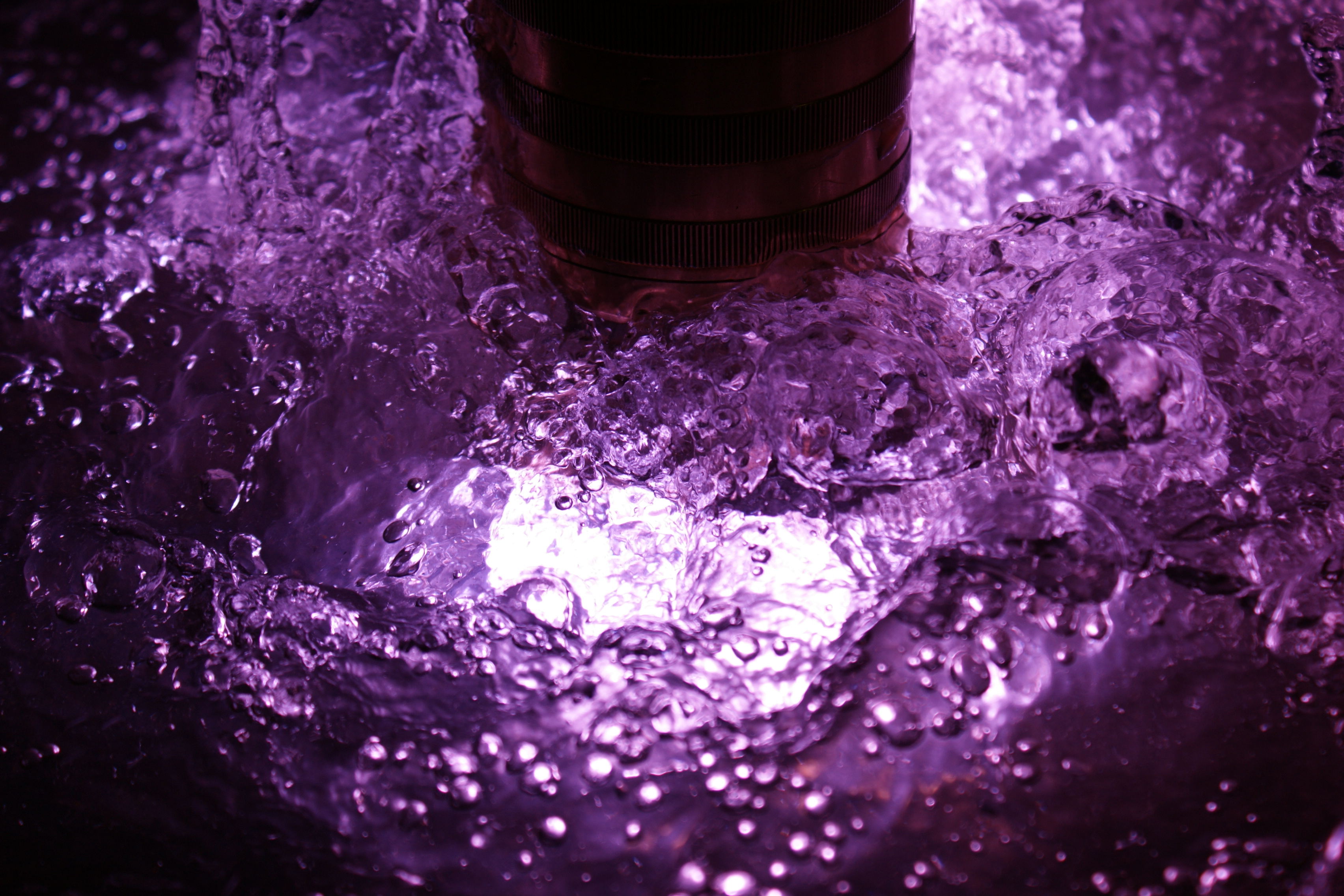 Underwater plasma cutting